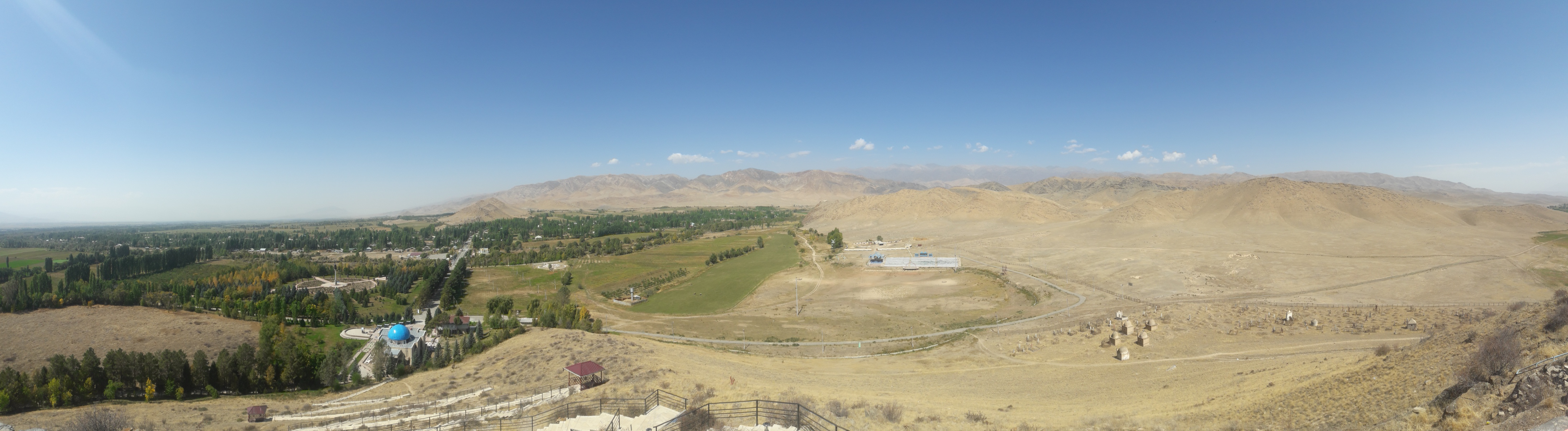 Manas Ordo near Talas